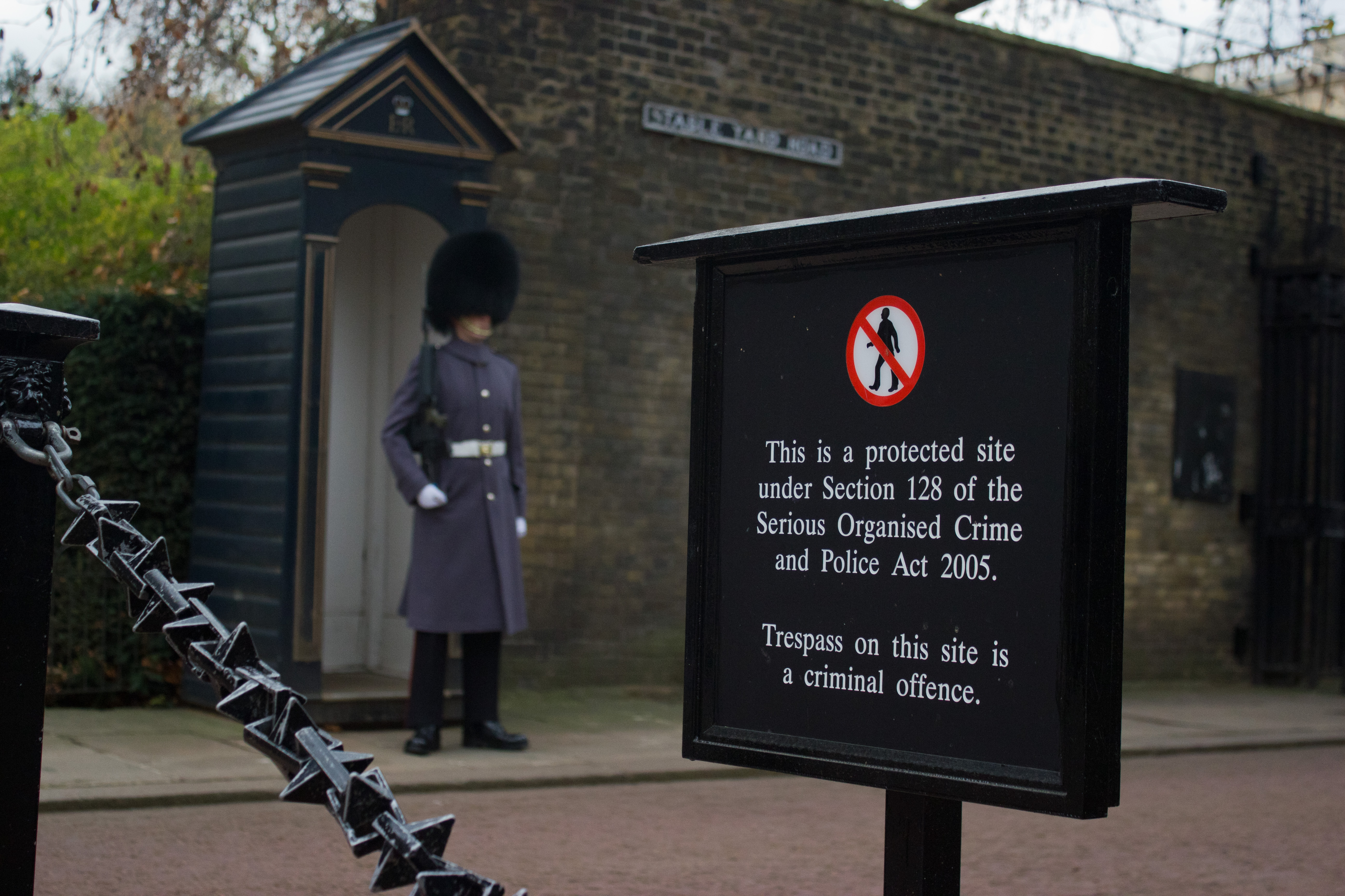 London, England 2011